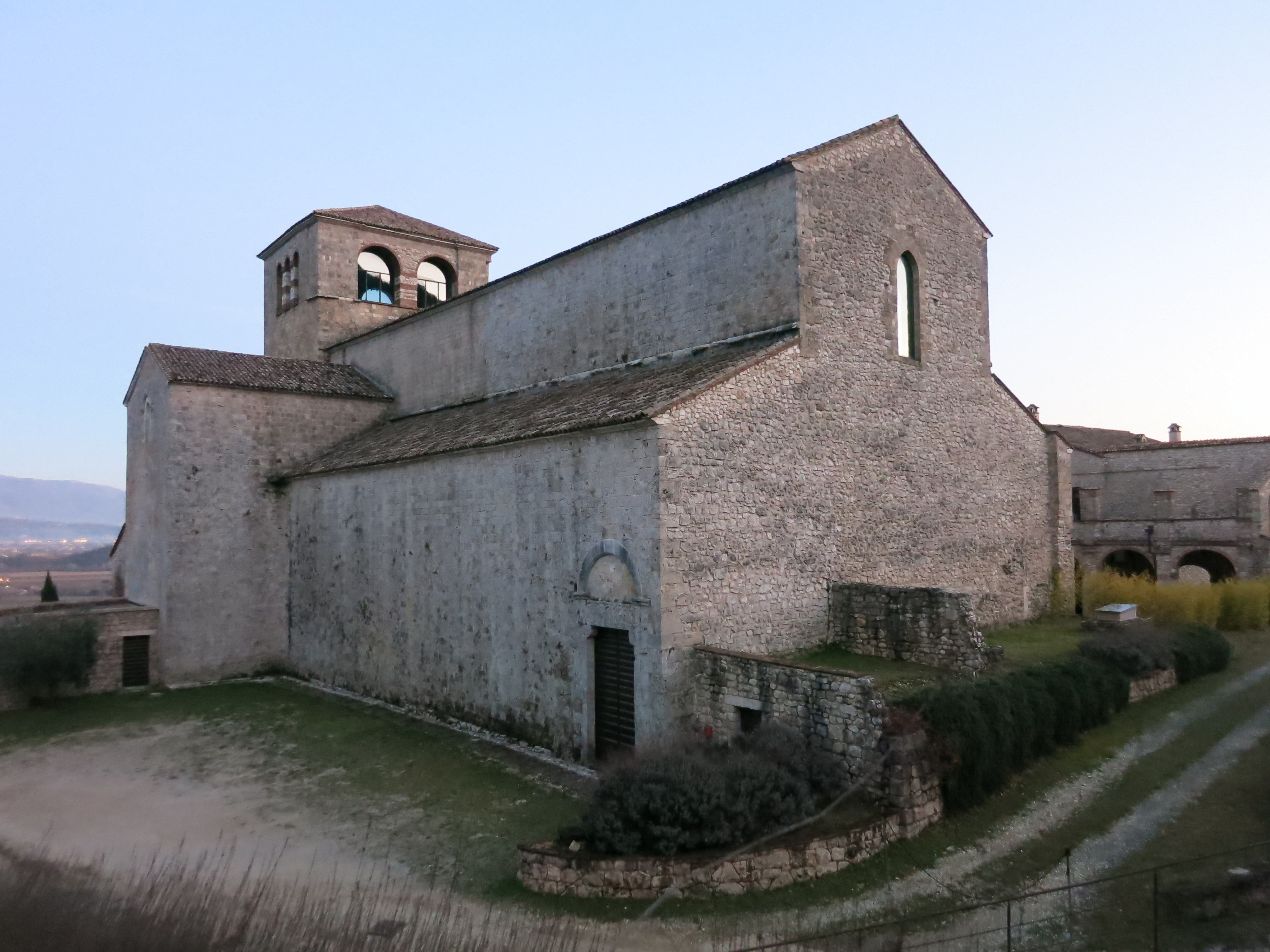 San Pastore Abbey - province of Rieti (Lazio, Italy)